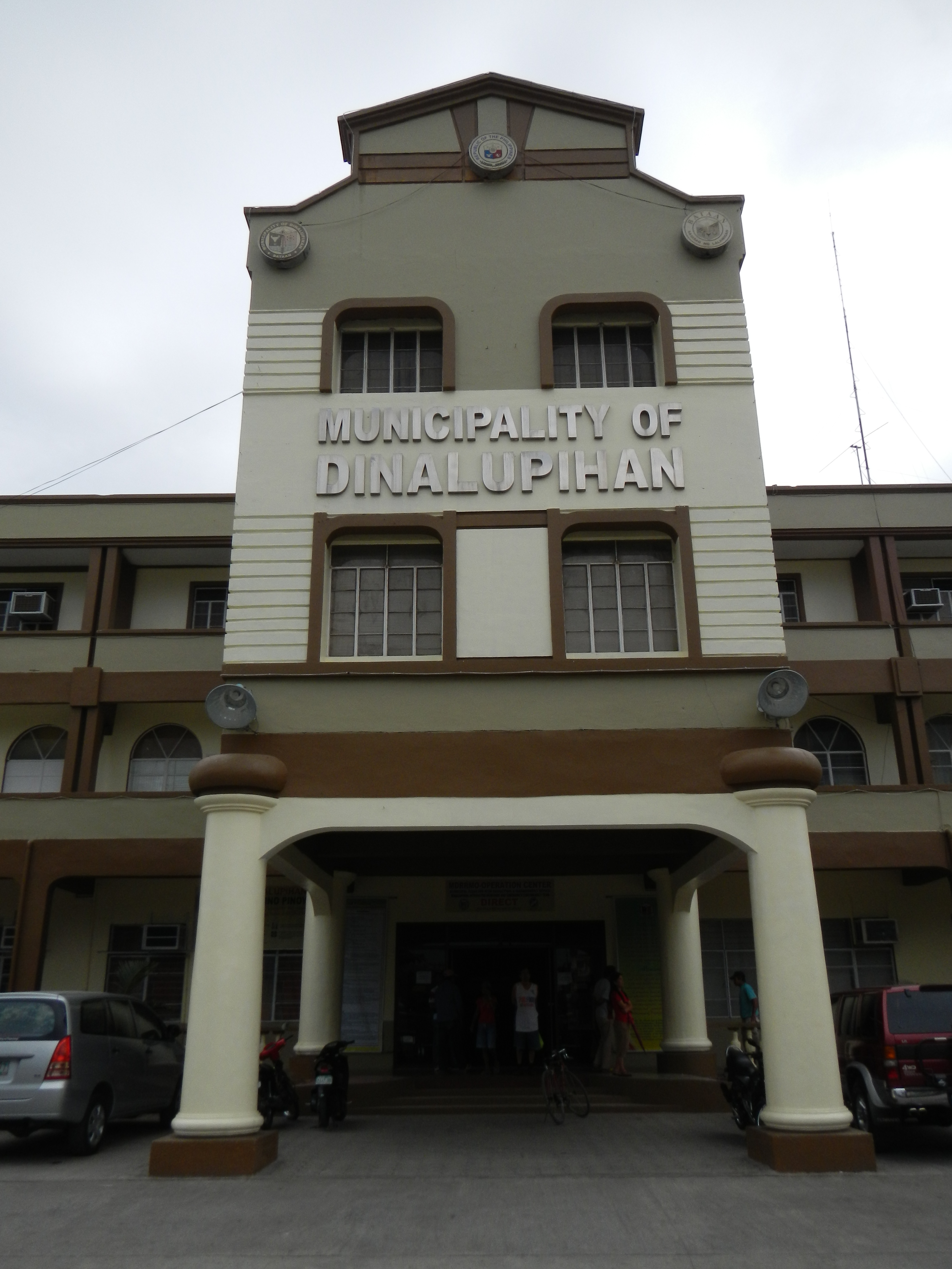 Dinalupihan, Bataan[1][2]